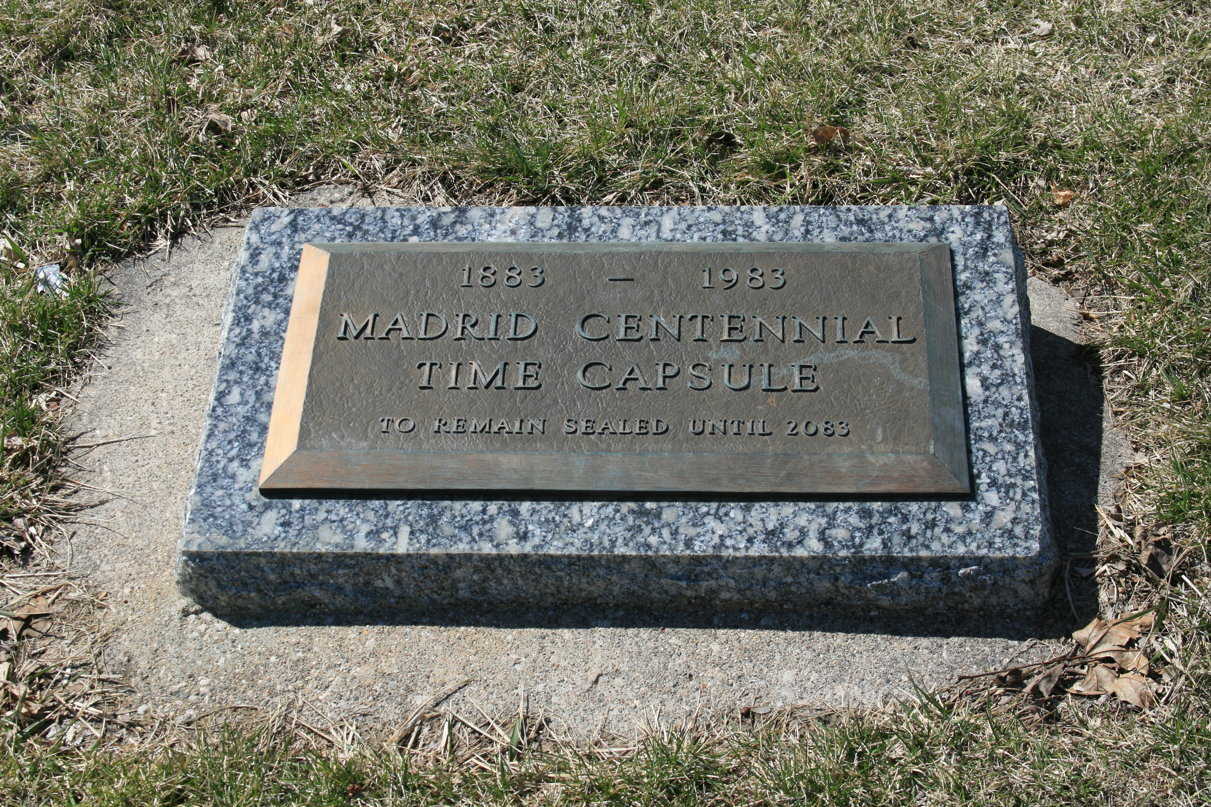 Plaque marking the location of the Madrid Centennial Time Capsule in Madrid, Iowa